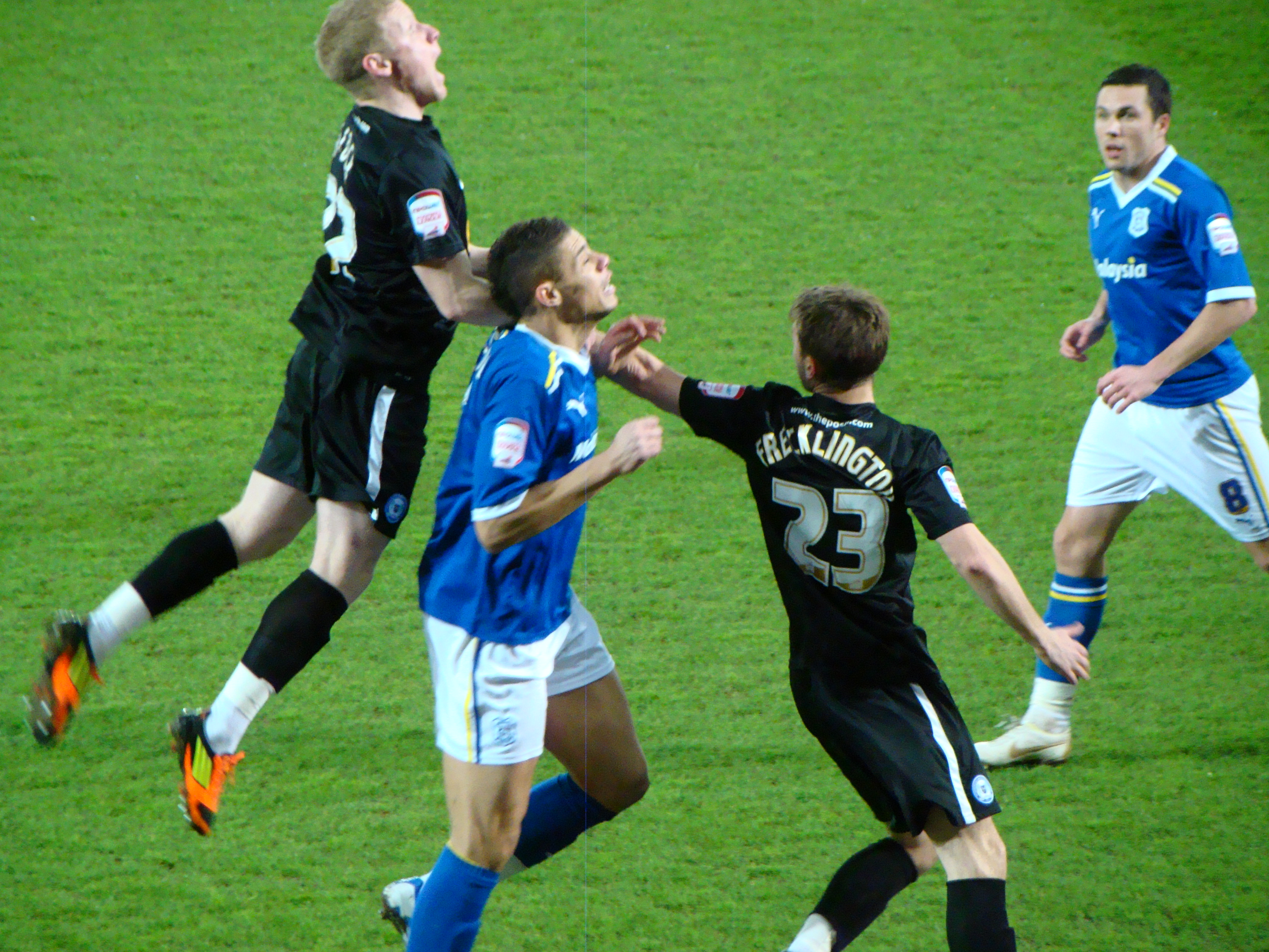 French striker Rudy Gestede, 14/02/12 Cardiff V Peterborough, Championship, Cardiff City Stadium, Cardiff, Wales